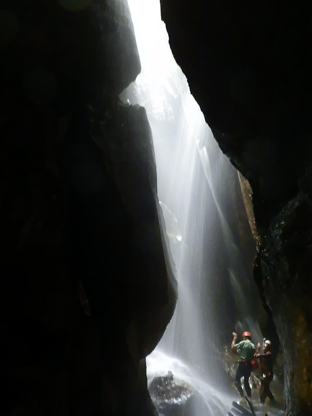 Repelling or Canyoning into the Caverna de las Cascadas or Cave of Waterfalls, Logroño, Ecuador